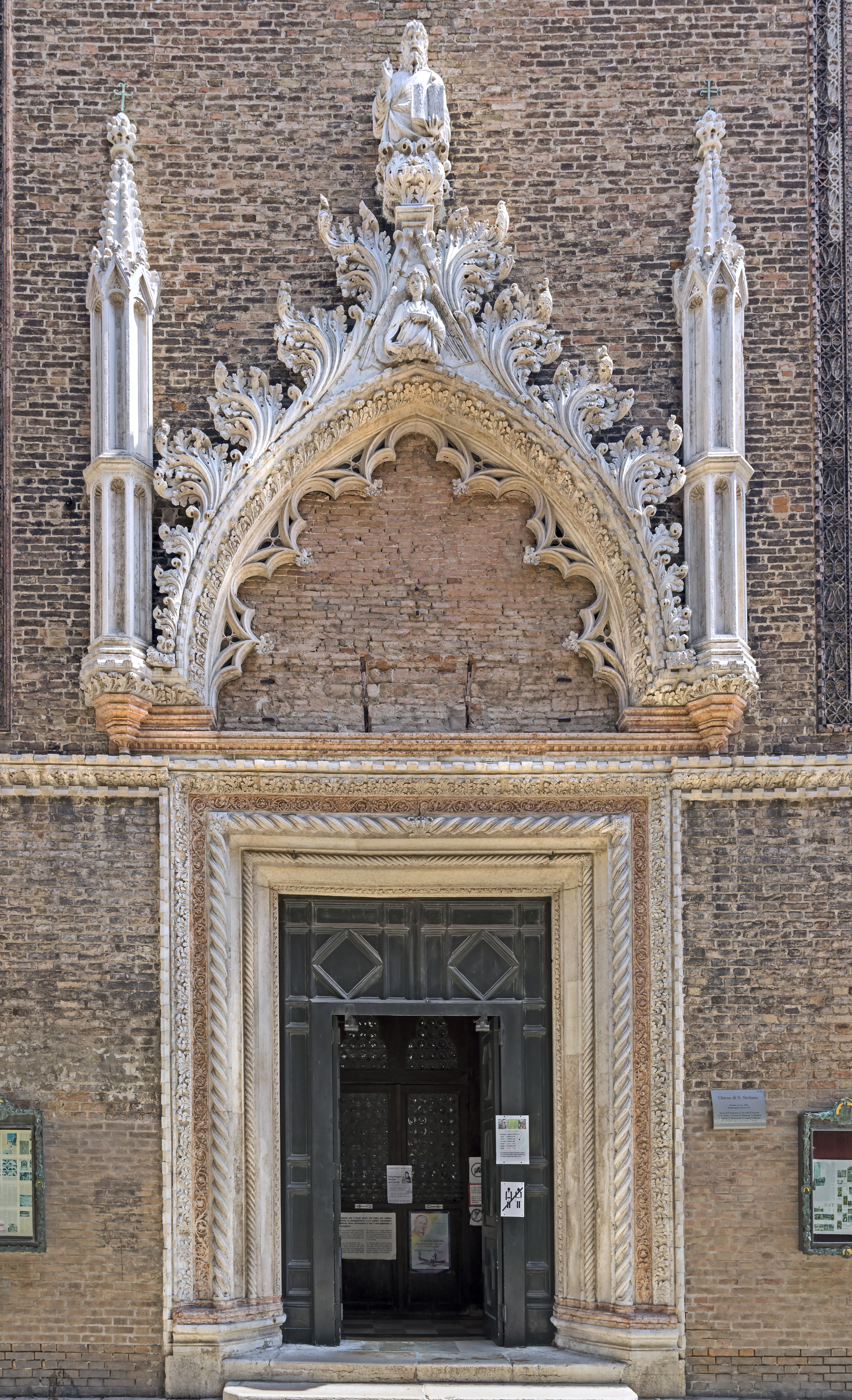 The Gothic portal of church Santo Stefano in Venice, built between 1438 and 1442, attributed to Bartolomeo Bon.